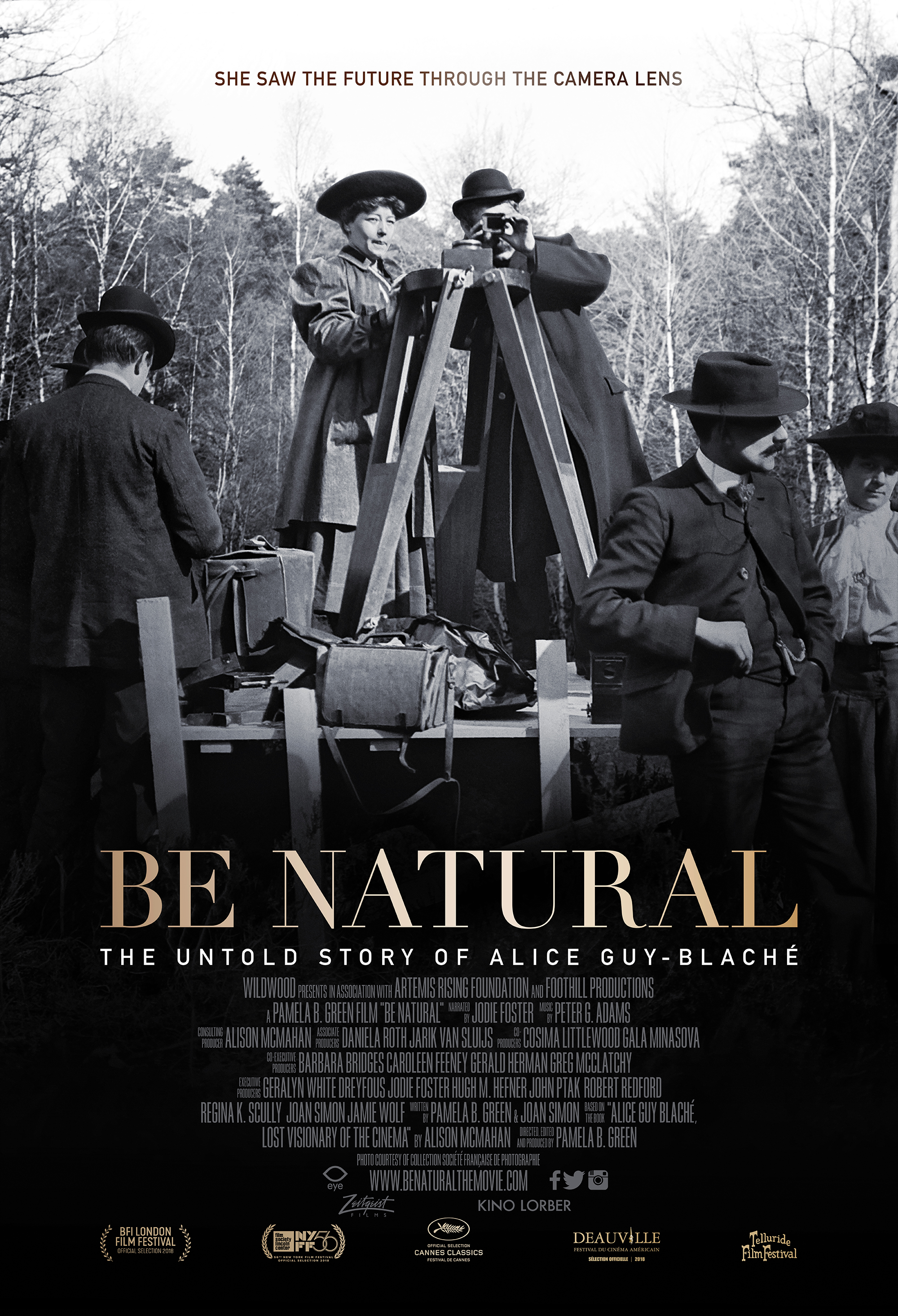 Official poster for Be Natural: The Untold Story of Alice Guy-Blaché